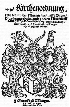 Title page of the church order of the Lutheran Church of the Margravate of Baden-Durlach established 1556